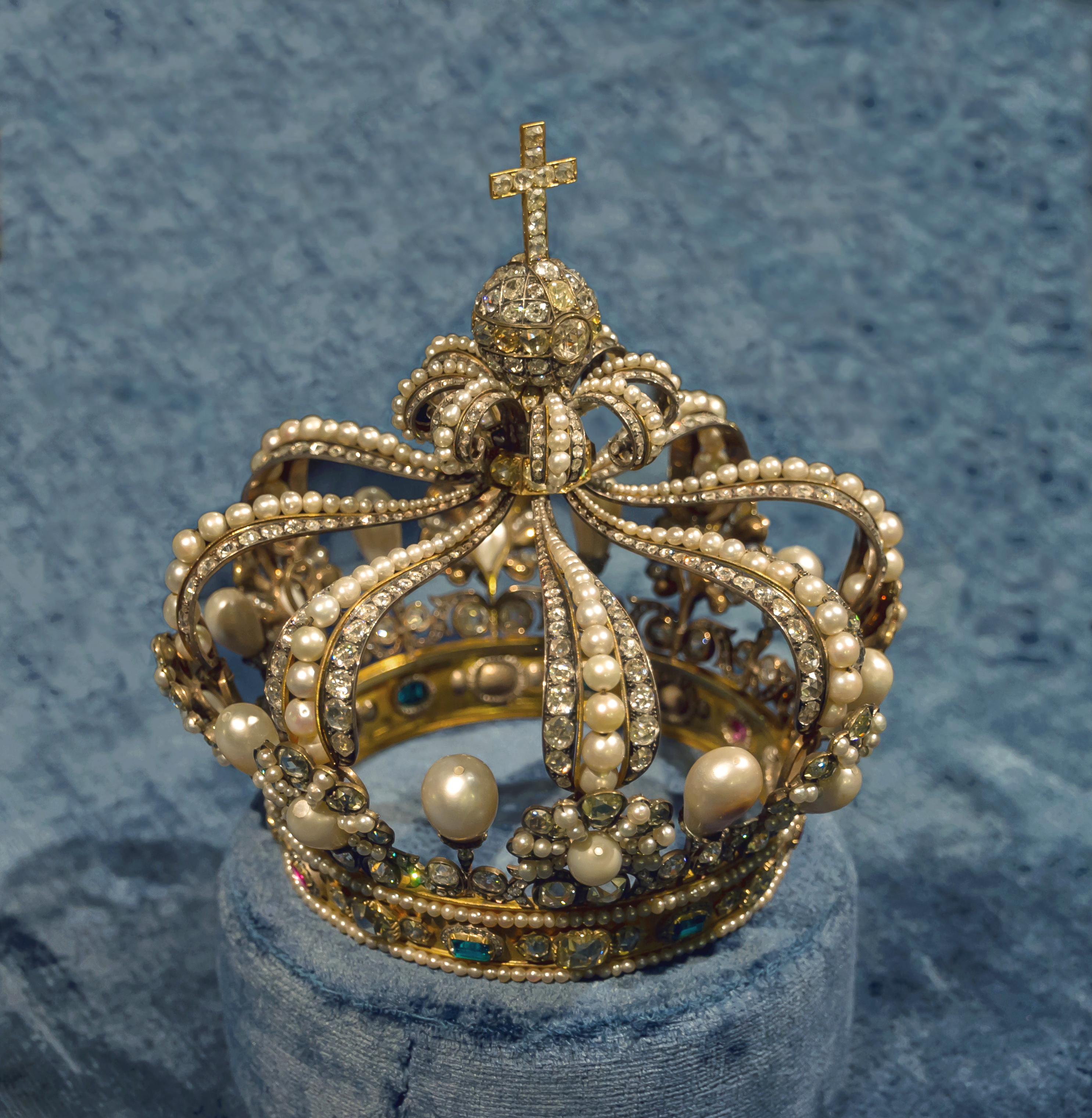 The crown of the Queens of Bavaria, by Marie-Étienne Nitot (1750-1809), jeweler, Jean-Baptiste Leblond and Martin-Guillaume Biennais (1764 - 1843), goldsmiths. Paris, 1806-1807, altered 1867. Schatzkammer, Residenz, Munich, Bavaria, Germany.